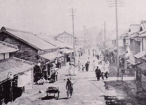 Taisho-Cho in Zenshu(Jeonju)